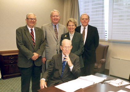 Justice Byron White, chairman of Commission on Structural Alternatives for the Federal Courts of Appeals after his retirement from Supreme Court, with other members of the commission.